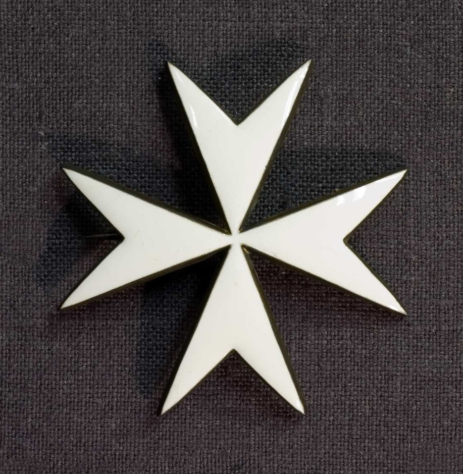 The Bailiwick of Brandenburg of the Chivalric Order of Saint John of the Hospital at Jerusalem (in German, the Balley Brandenburg des Ritterlichen Ordens Sankt Johannis vom Spital zu Jerusalem), or simply the Order of Saint John (Der Johanniterorden), is the German Protestant branch of the Knights Hospitaller, the oldest surviving chivalric order, which generally is considered to have been founded in Jerusalem in the year AD 1099. This is the star or "breast badge/cross", worn by all ranks of the order. From the collections of the Swedish Army Museum.